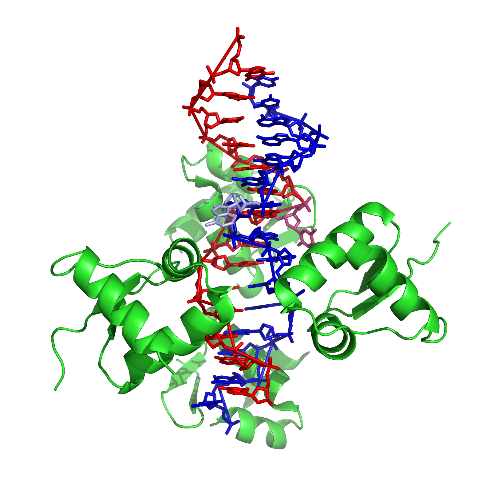 By Richard Wheeler (Zephyris) 2007. B-/Z-DNA junction bound to a Z-DNA binding domain. Note the two highlighted extruded bases. From .